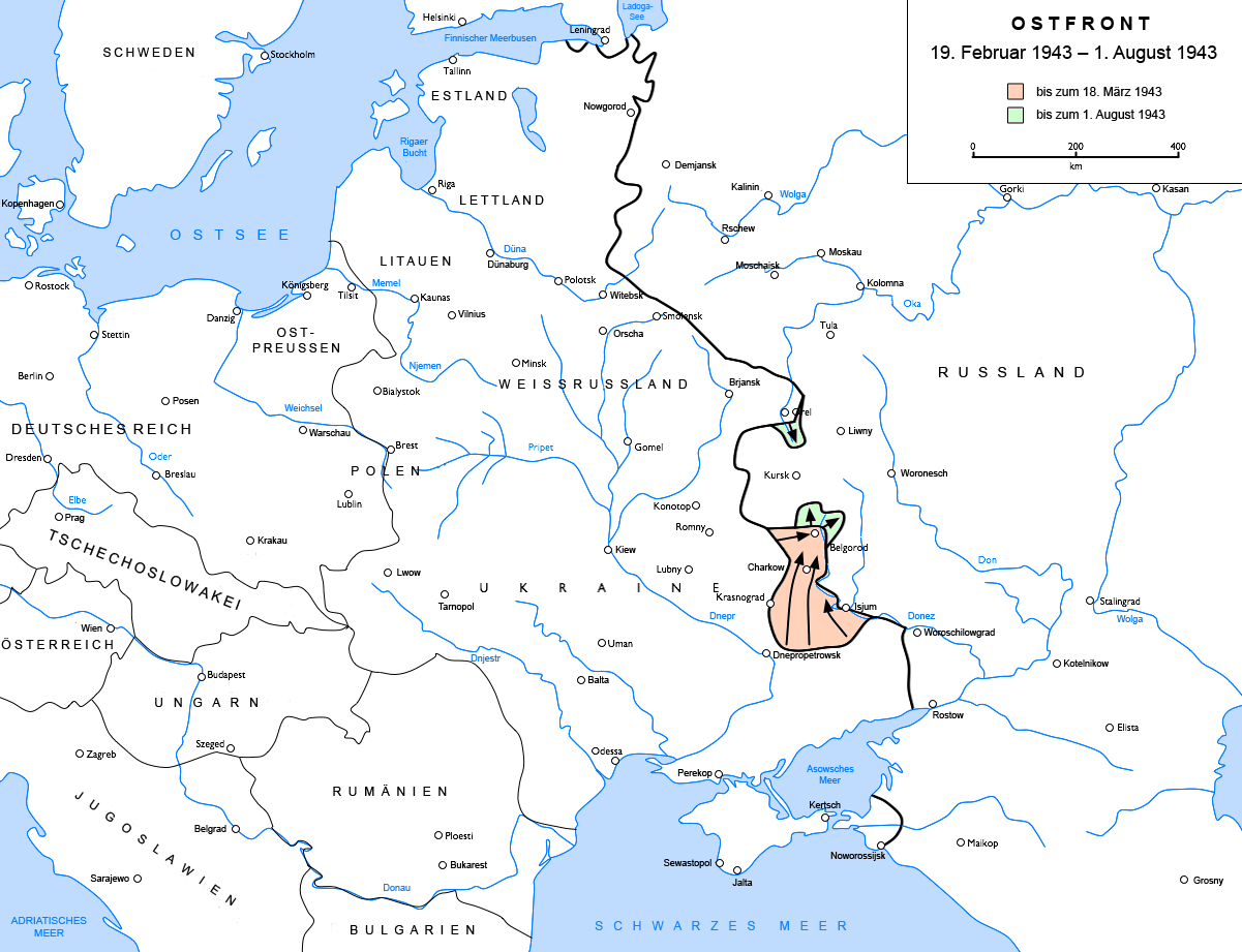 German advances on the Eastern Front (WWII), en:1943-en:02-19 to en:1943-en:08-01Drawn by User:Gdr